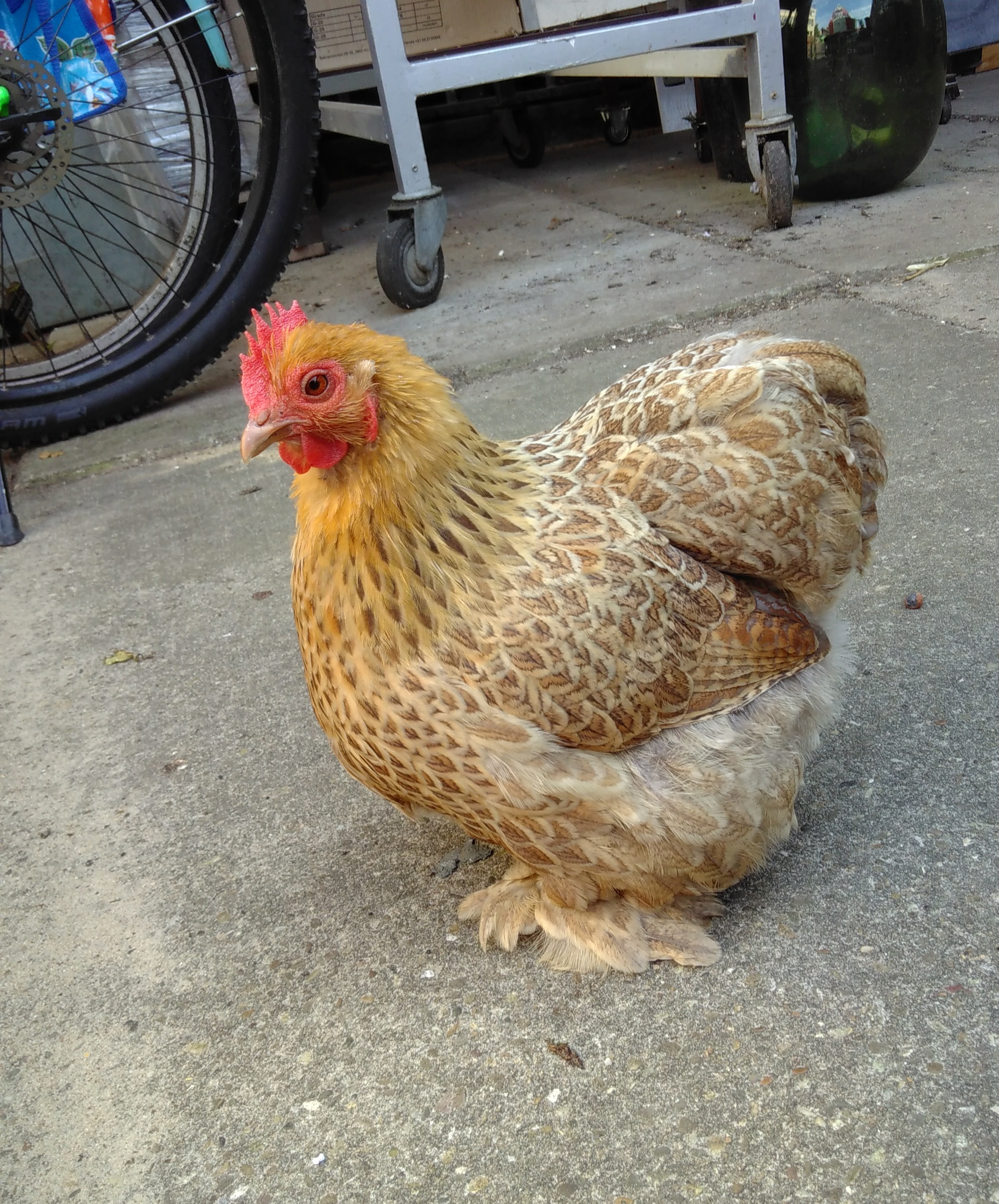 Cochin 'Koosje' female chicken in Amersfoort(NL)